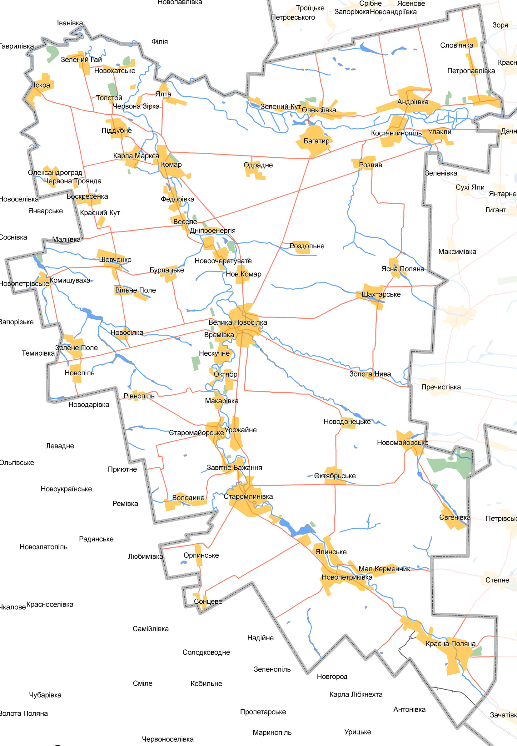 Map of Velyka Novosilka Raion, Donetsk Oblast, Ukraine